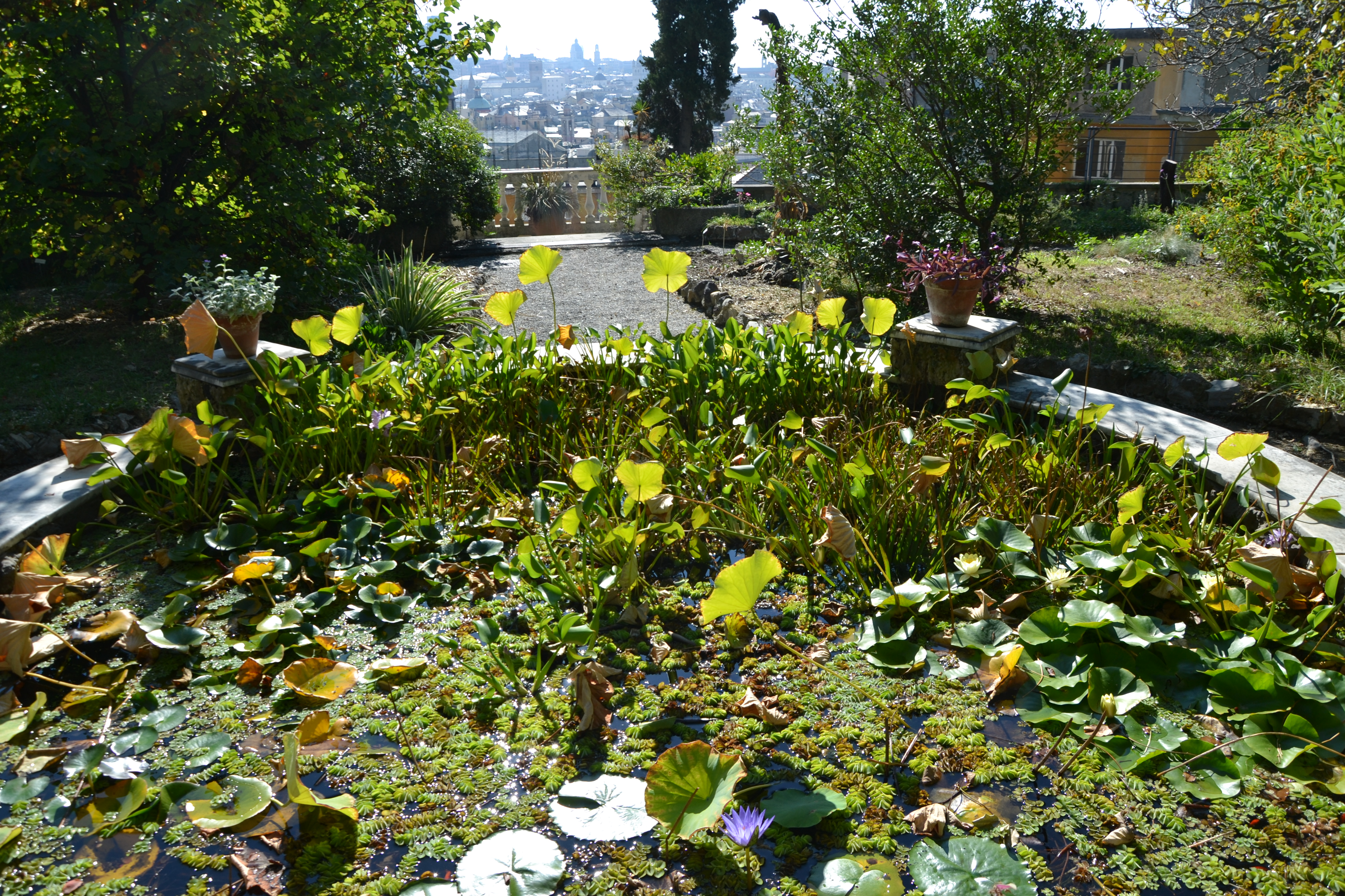 University of Genoa Botanic Garden